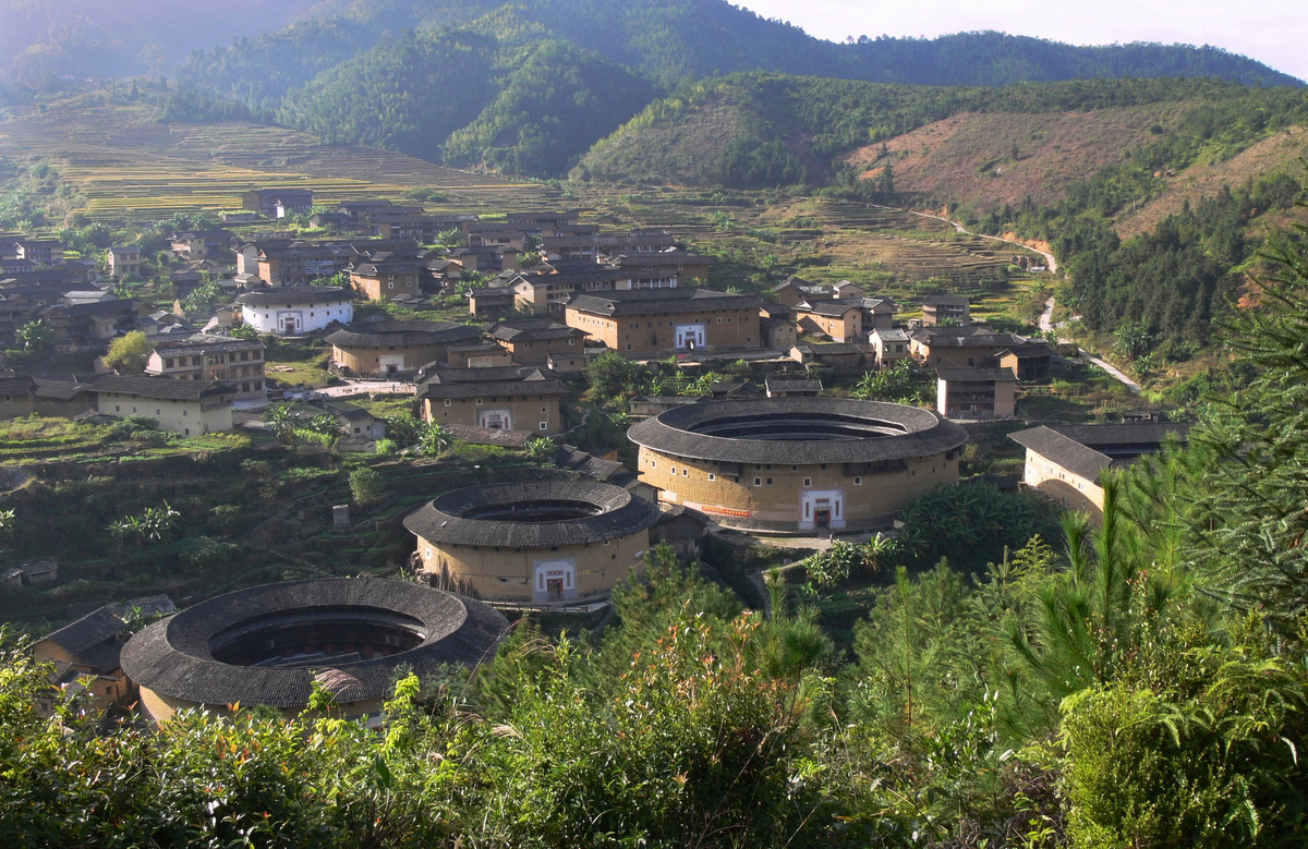 Chuxi Tulou cluser, UNESCO WORLD HERITAGE 1113-001